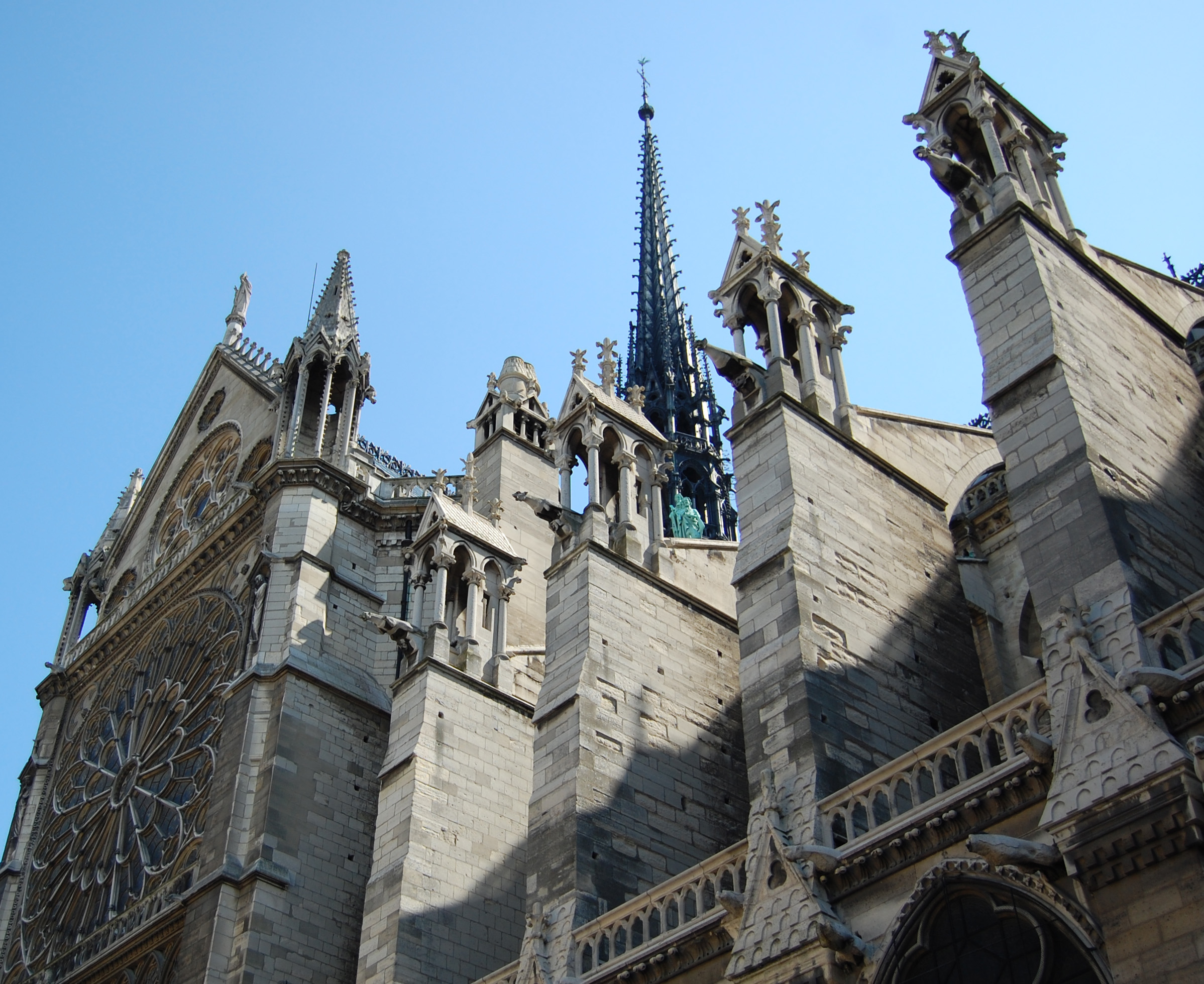 Cathedrale Notre Dame de Paris